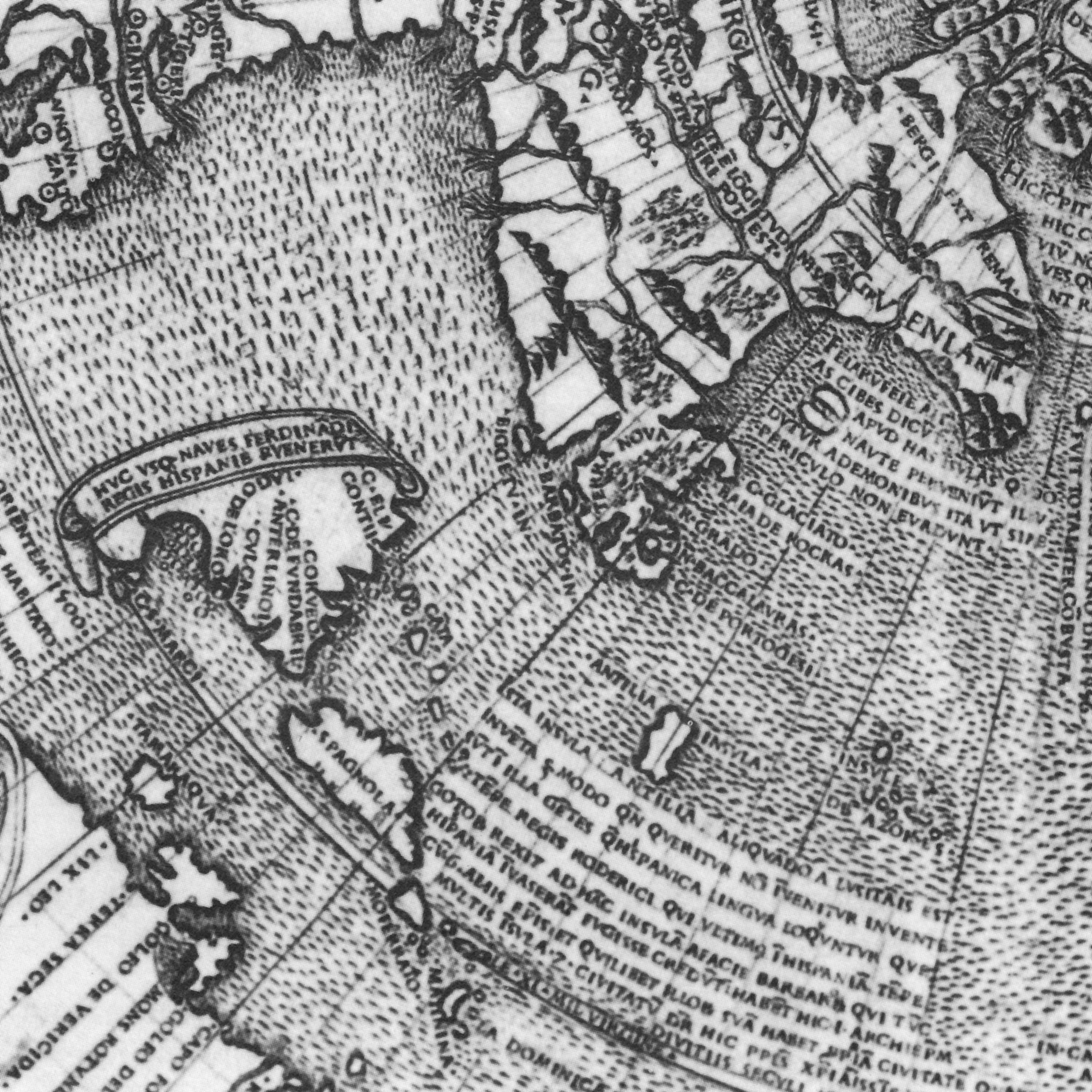 Close up of the Ruysch map (1507) showing Gruenlant, Antilia, Cuba, and the coast of South America